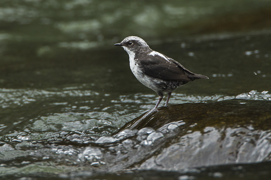 White-capped Dipper - Colombia_S4E0638